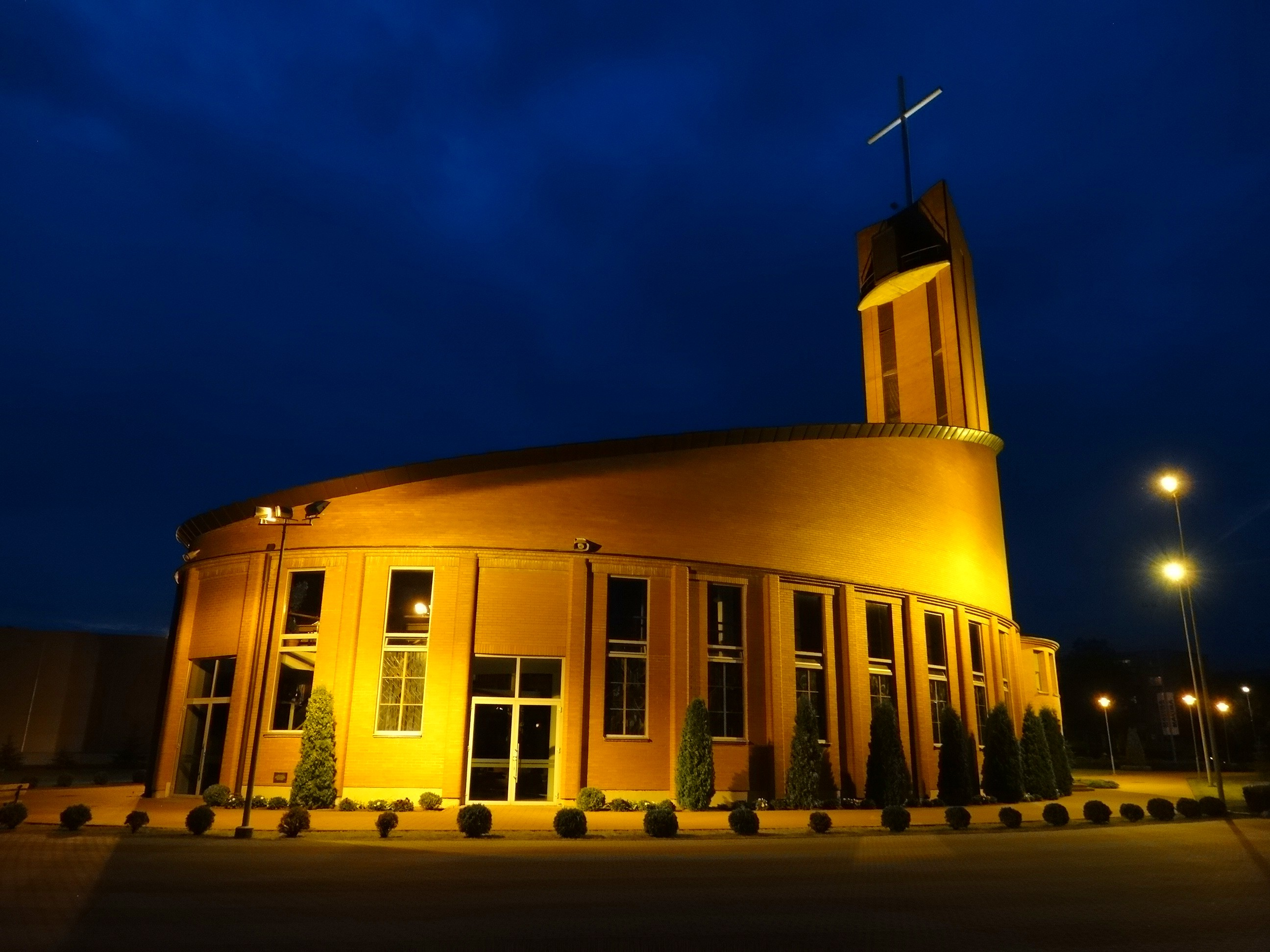 Divine Providence Catholic Church, Utena, Lithuania